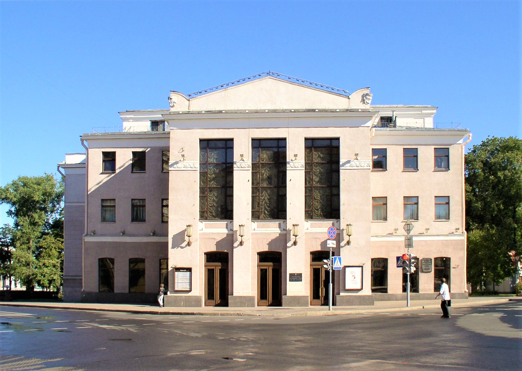 Yanka Kupala National Academic Theatre. Minsk, Belarus.